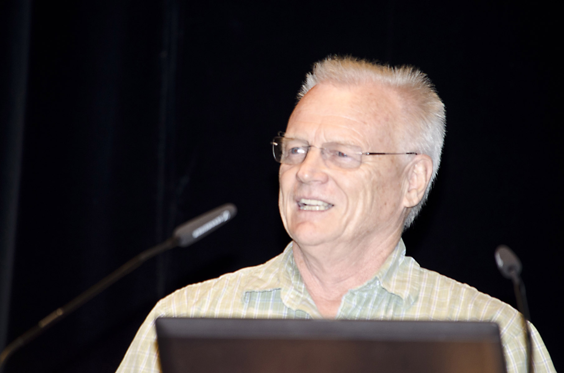 Gary Stormo giving his ISCB Fellows keynote talk at ISMB/ECCB 2013.